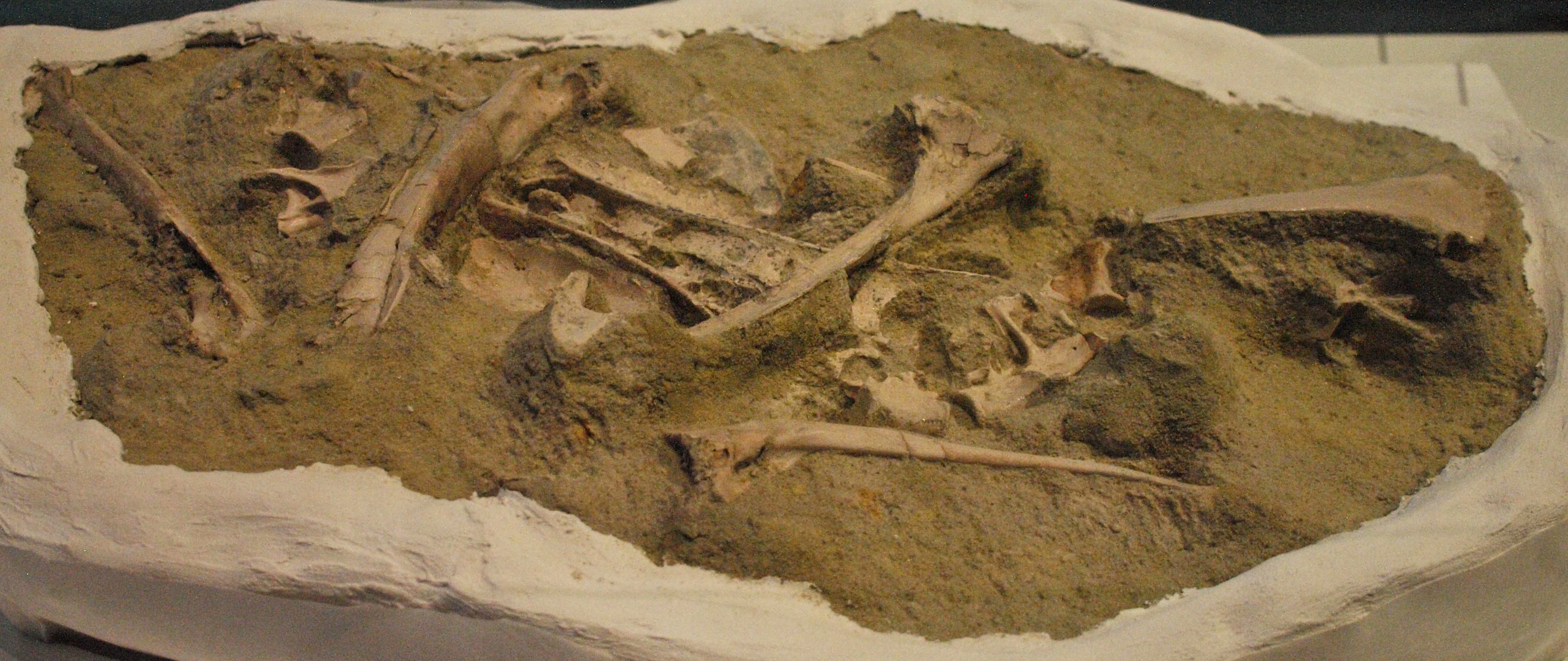 Masiakasaurus knopfleri Fossil Partial Skeleton on Display at the Royal Ontario Museum (FMNH PR 2481)